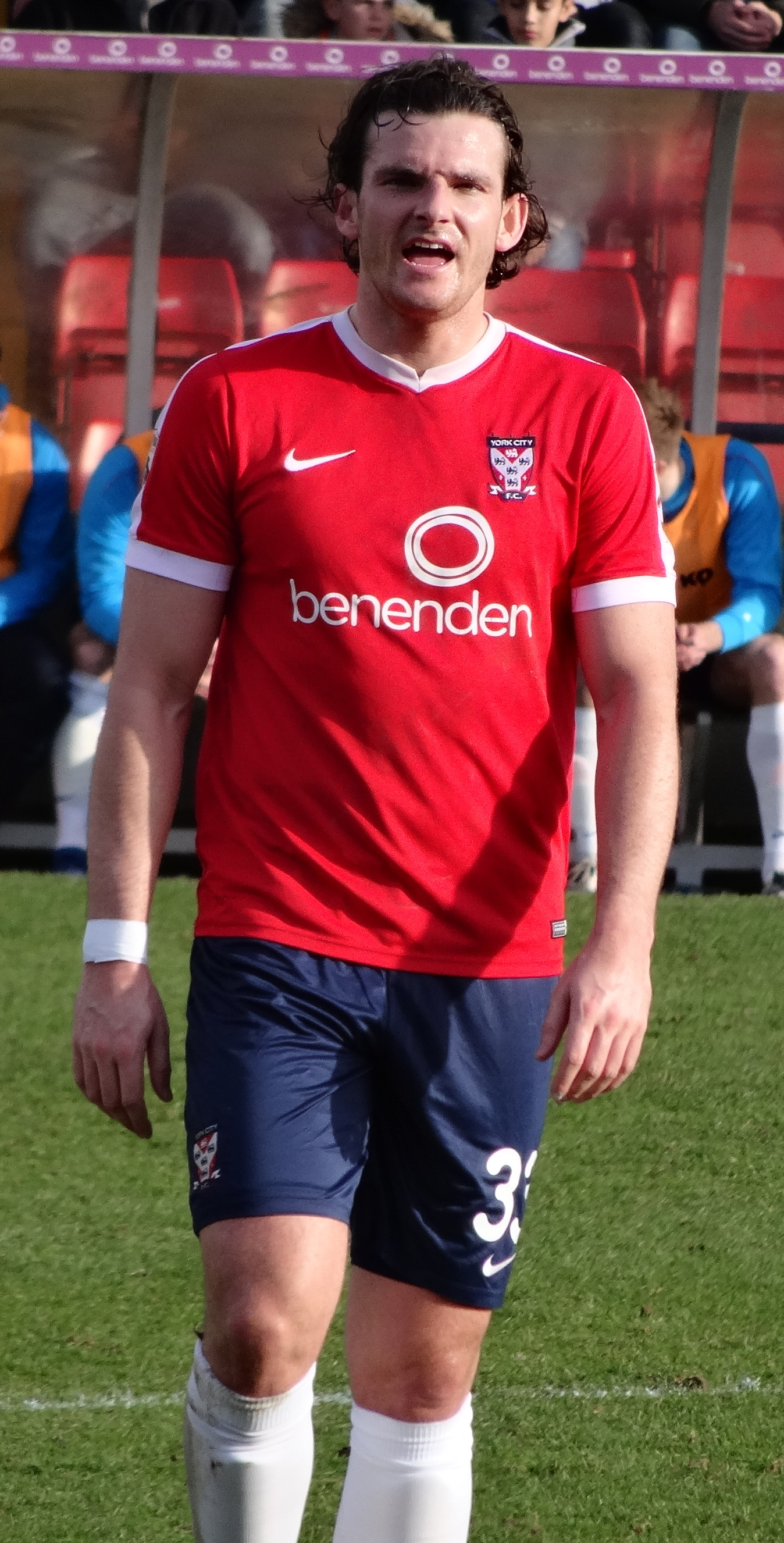 Sean Newton playing for York City against Eastleigh at Bootham Crescent, York on 4 March 2017